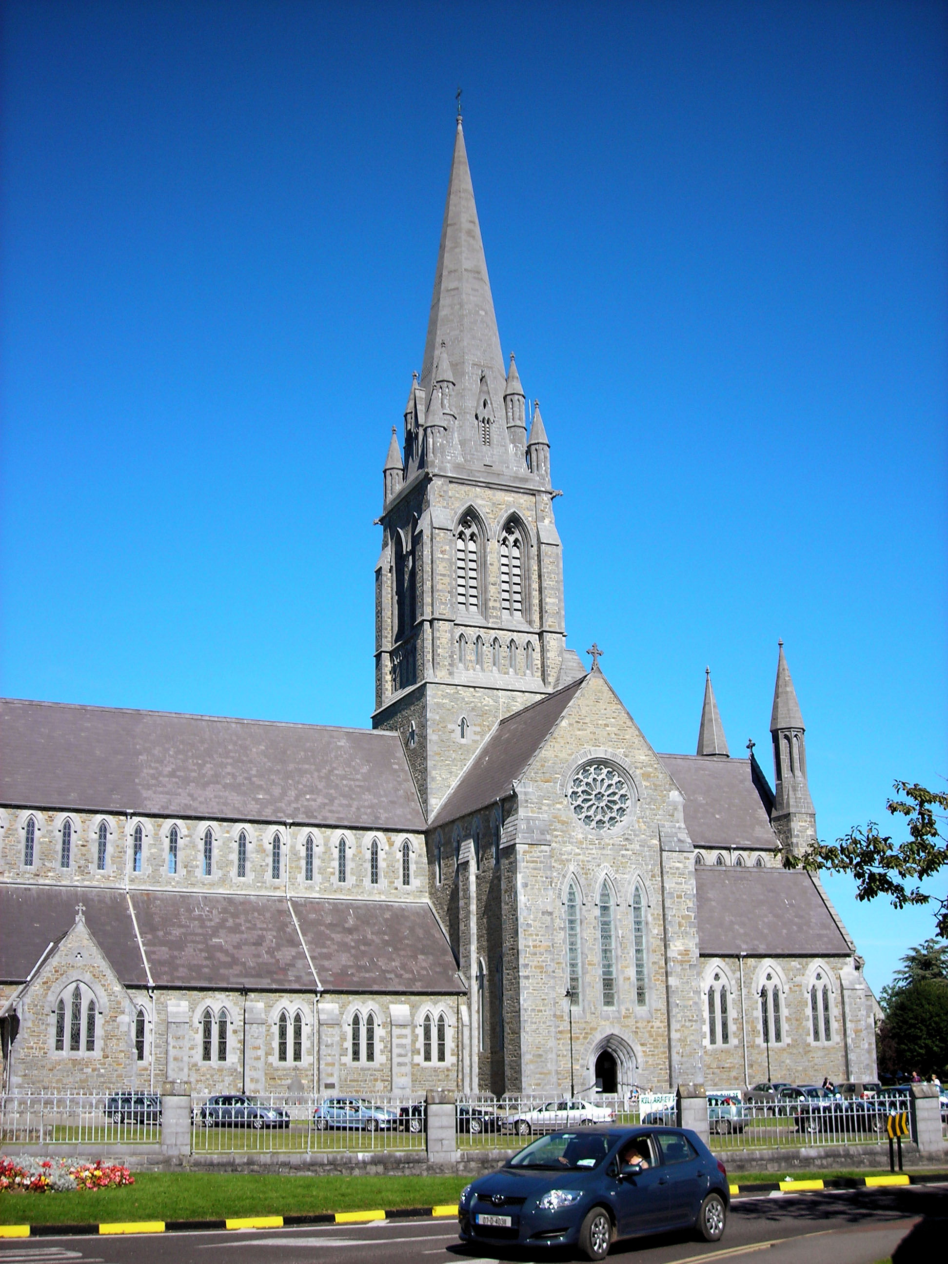 Killarney St Mary's Cathedral